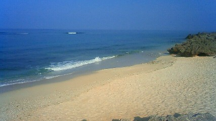 Yakomo beach. Yakomo beach, Okinoerabujima.